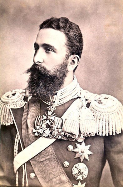 Portrait of Alexander I of Battenberg, prince (knyaz) of Bulgaria by Dimitar Karastoyanov.